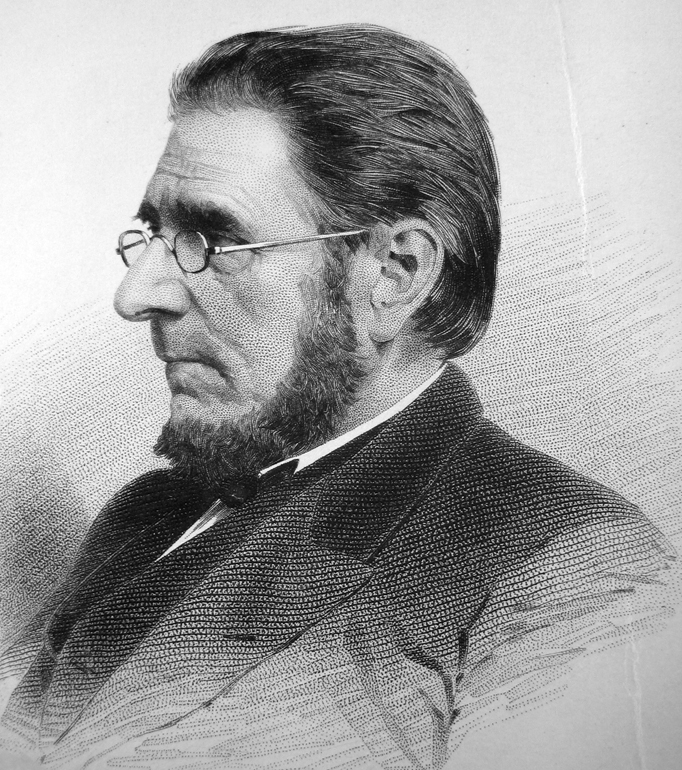 James Harper as a middle aged man. From "The house of Harper; a century of publishing in Franklin Square", by J. Henry Harper, 1912.